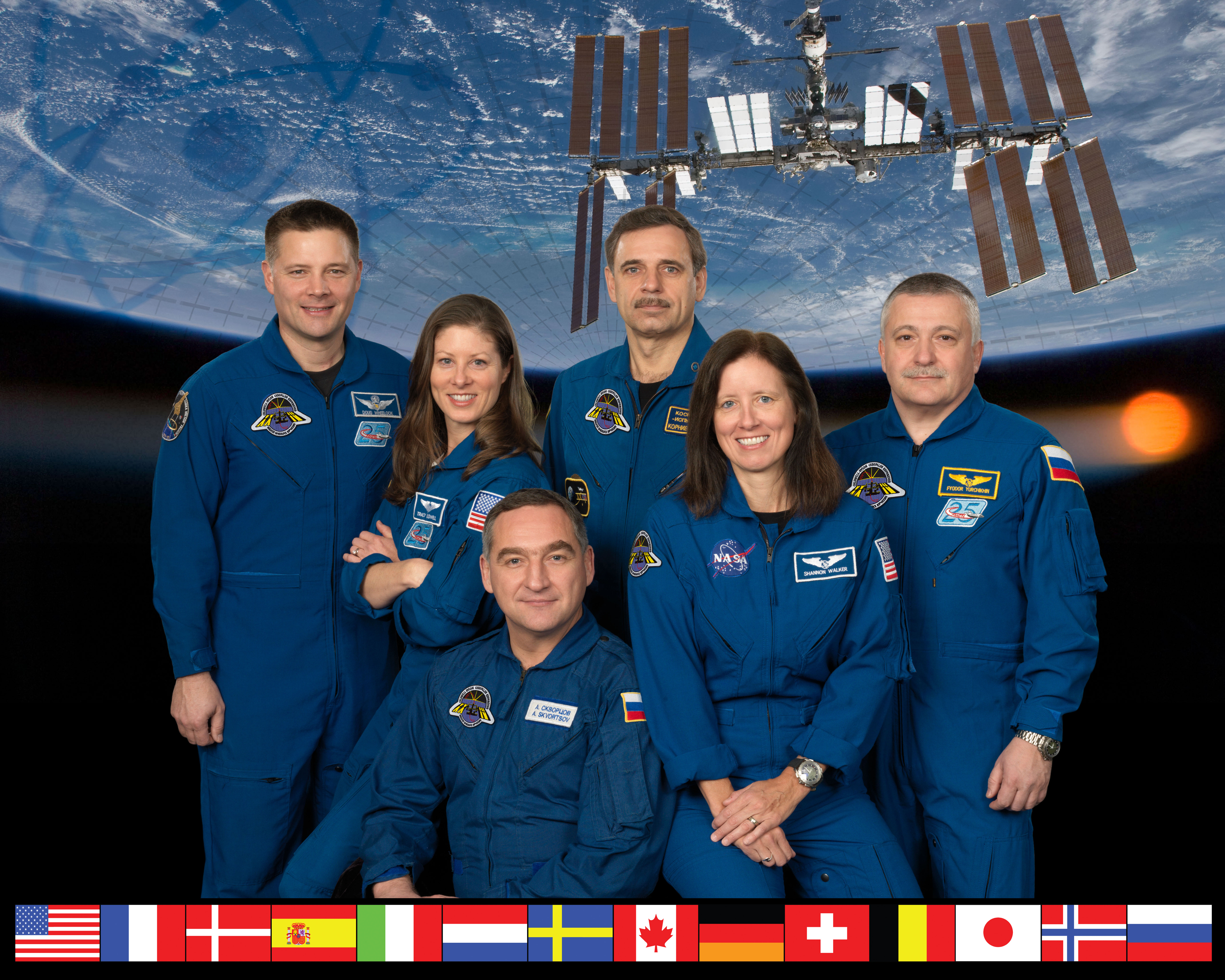 Expedition 24 crew members take a break from training at NASA's Johnson Space Center to pose for a crew portrait. Pictured clockwise are Russian cosmonaut Alexander Skvortsov (bottom), commander; NASA astronauts Tracy Caldwell Dyson and Doug Wheelock; Russian cosmonauts Mikhail Kornienko and Fyodor Yurchikhin; along with NASA astronaut Shannon Walker, all flight engineers.